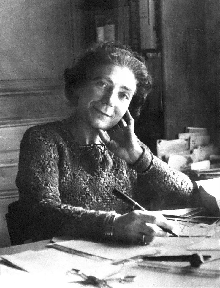 Marguerite-Marie Dubois in 1965 at the Sorbonne